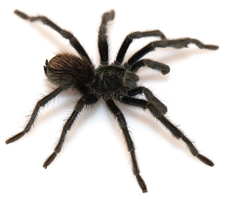 Aphonopelma paloma male